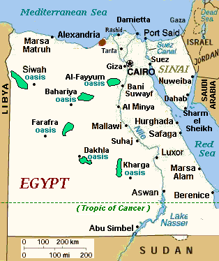 Regional map of Egypt, with main cities and oasis areas labeled, plus scale of miles/km (approximate). The file is in GIF format, 10x times faster than PNG format, for rapid display and to allow precise edits when adding other towns in the future. Re-labeled to include 6 oasis areas, with "Giza" and sea-side towns, plus dotted line for Tropic of Cancer.